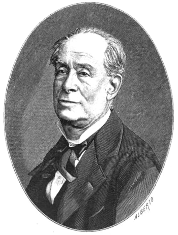 Ignacio de Vilhena Barbosa